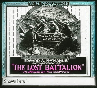 Film poster for the 1919 American film The Lost Battalion (1919).